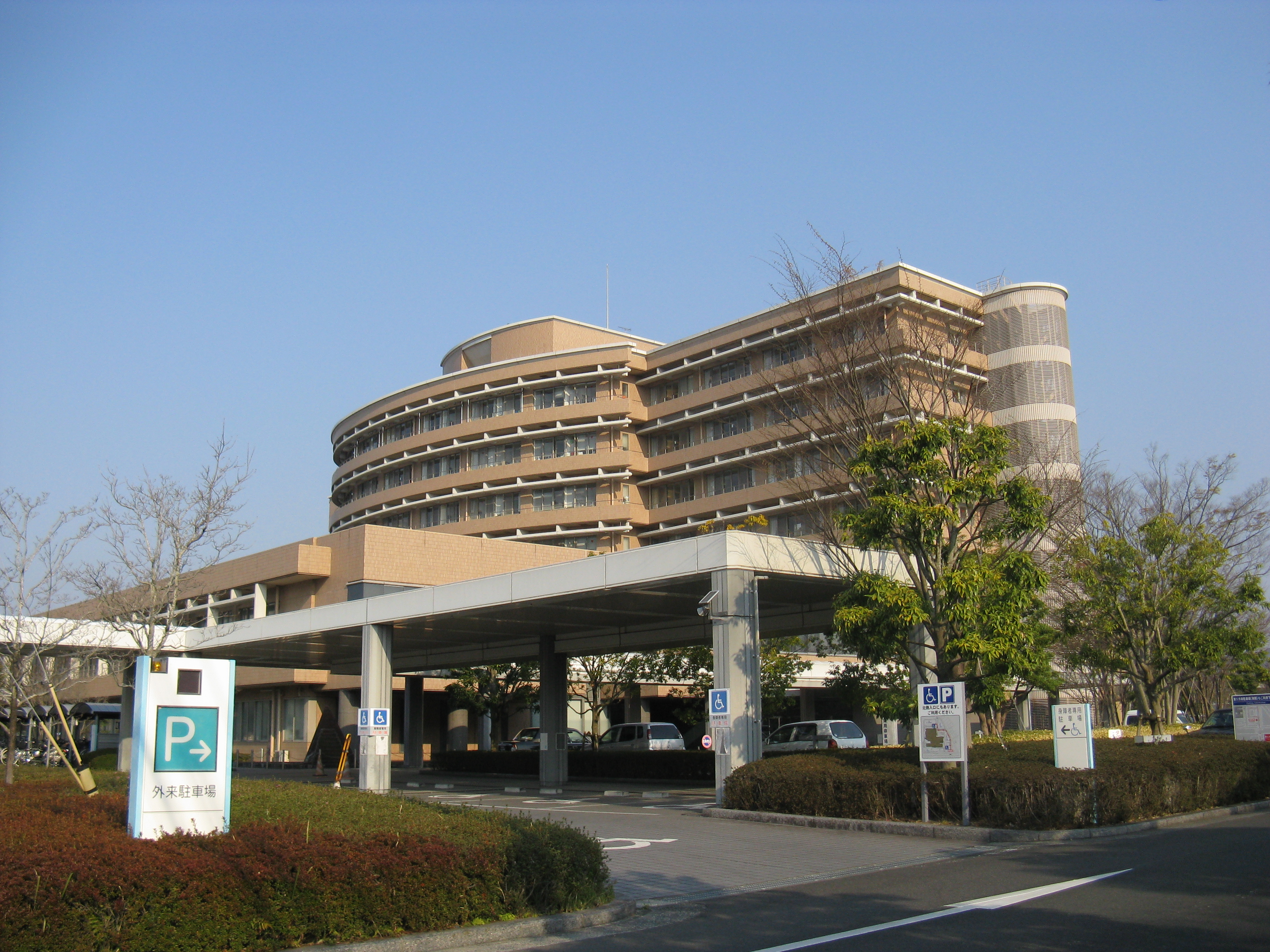 Miyazaki Prefectural Nobeoka Hospital 2011.3.30